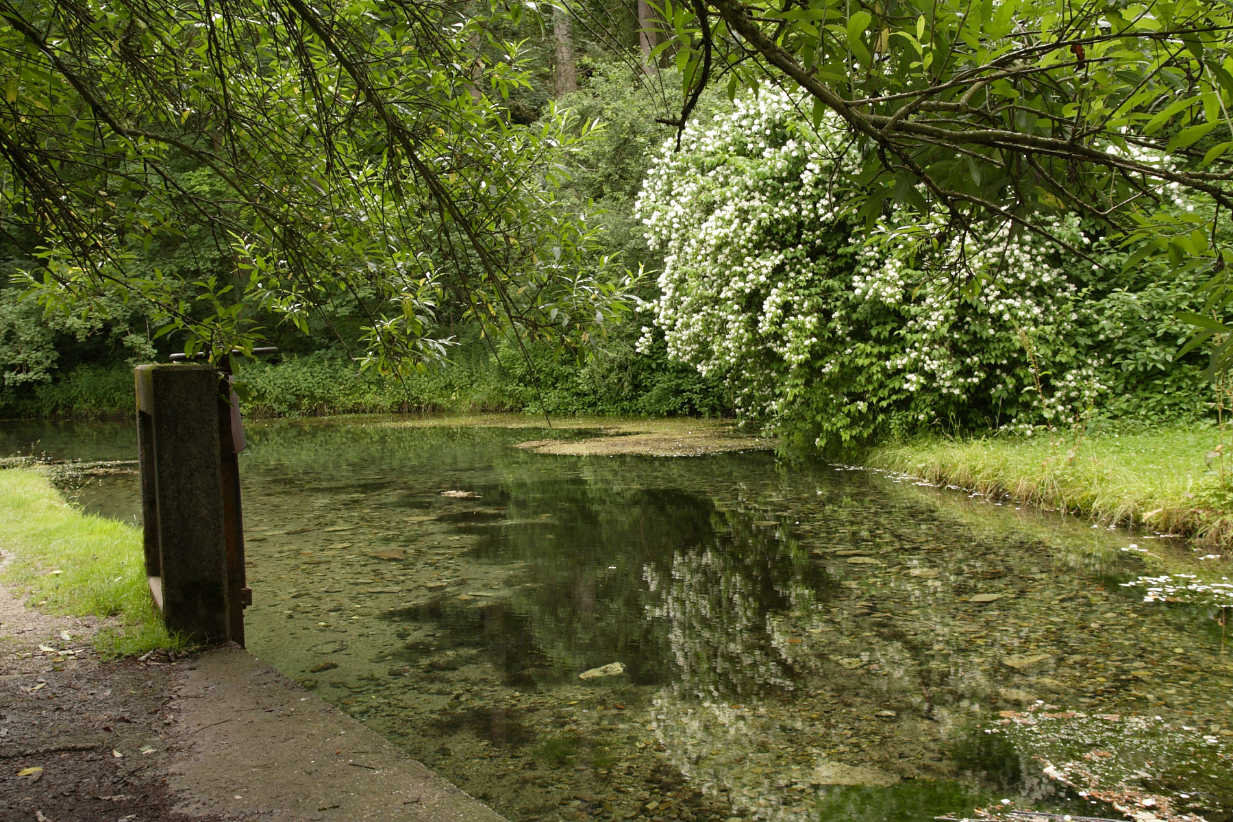 karst spring (yielding ca. 200-1500l/s) of the „Große Lauter“ (tributary of the Donau) at Offenhausen, Swabian Alb. The idyllic spring’s small lake is within the old walls of the former nunnery of the Dominican order. The monastery was given up and replaced with a stud farm already in 1600. Today the whole estate, the church (museum), the horse stable, various farm buildings belong to one of the three Marbach studs. The spring’s water, which drops by ca. 3 m behind the lake, runs into a small powerhouse, where electric power used to be generated.